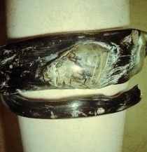 Black coral bracelet/ 黑珊瑚手鐲